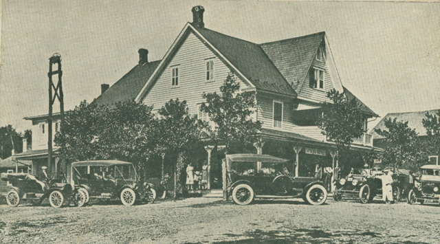 This is a picture of the early Hotel Jonas, Unknown year of photo.